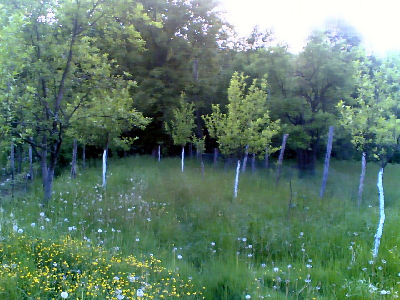 Village Mlechevo, Bulgaria